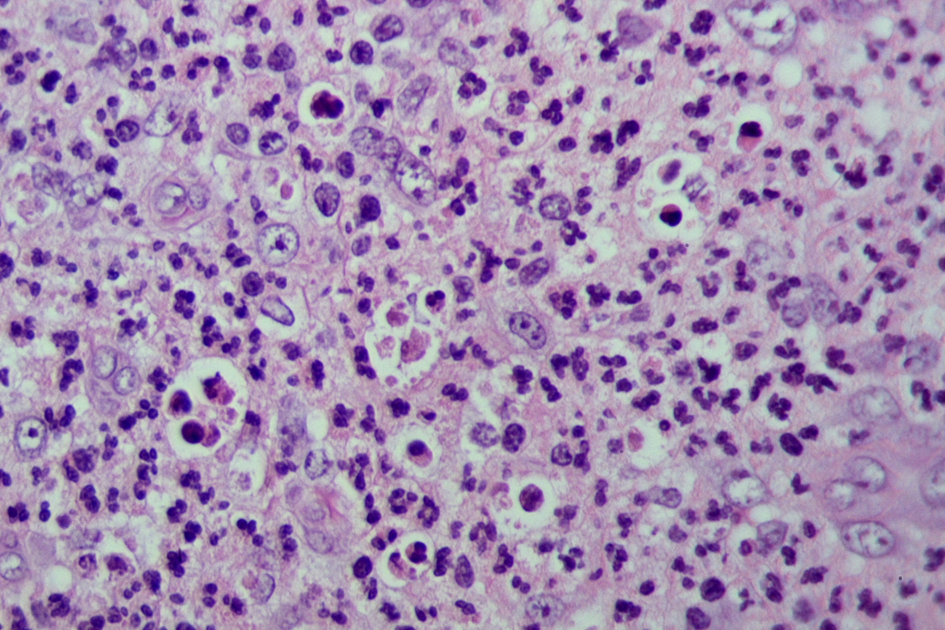 Bacterial purulent cutanous inflammation in an diabetic patient.